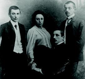 Noether, Emmy; Noether, Alfred; Noether, Fritz; Noether, Robert — Annotation: vor 1918 — Source: Konrad Jacobs, Erlangen — Copyright: unknown